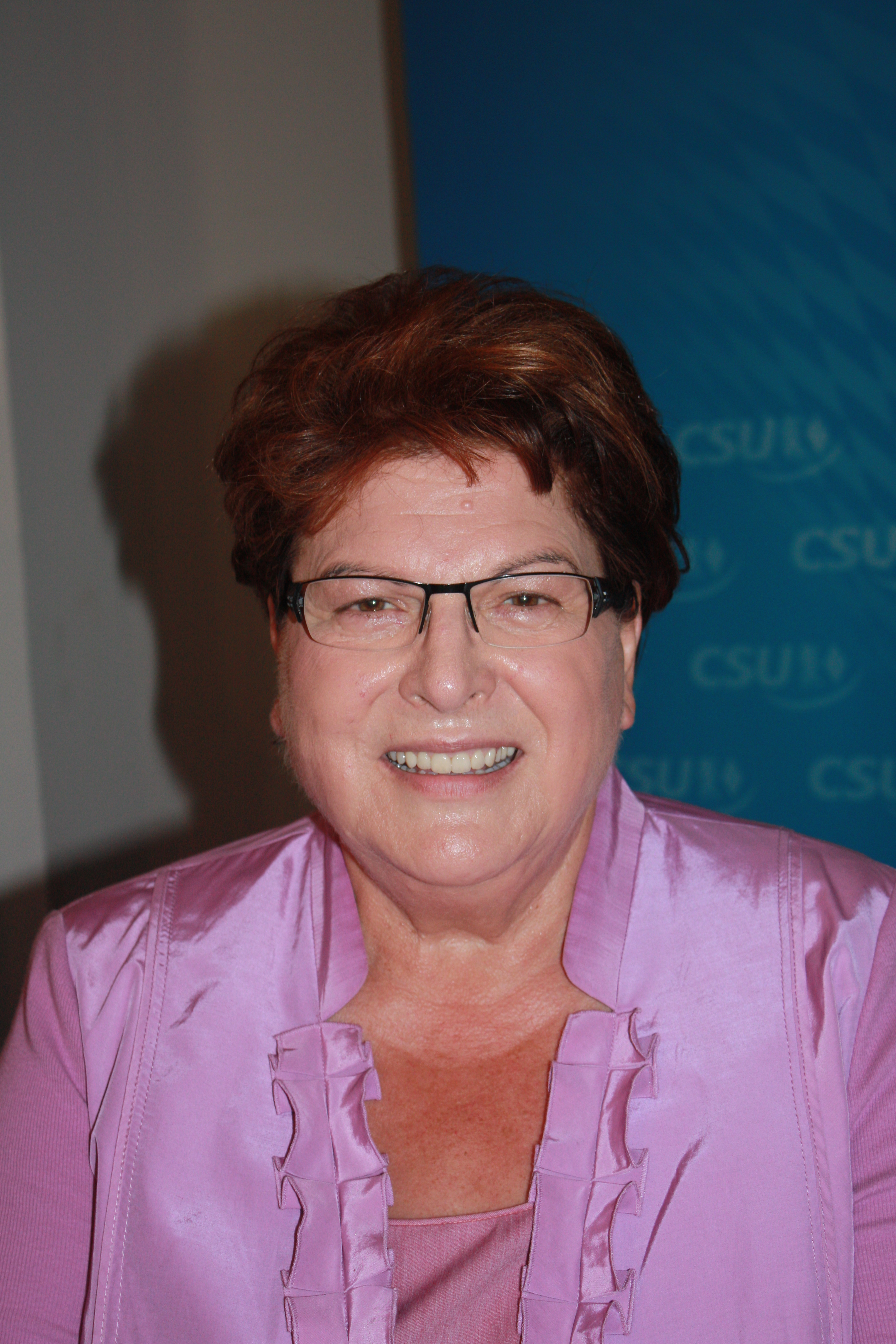 Barbara Stamm